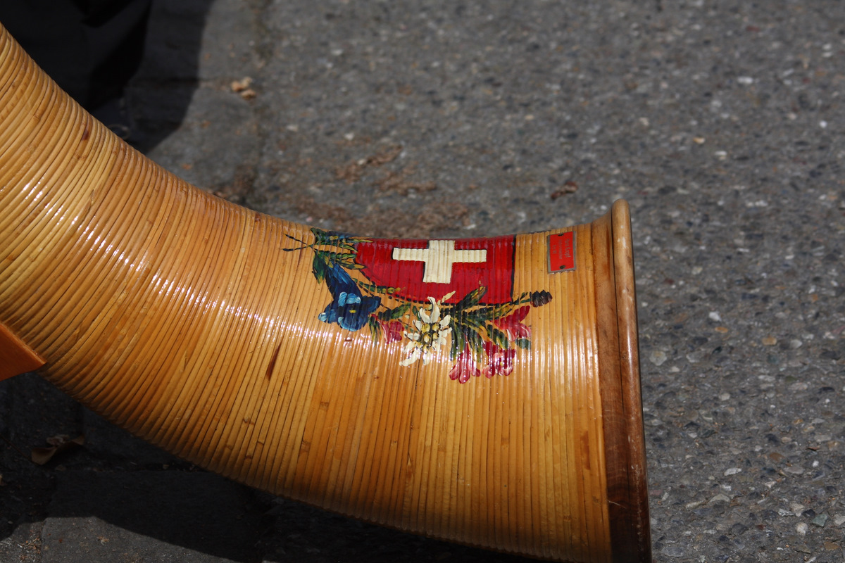 Alphorn detail